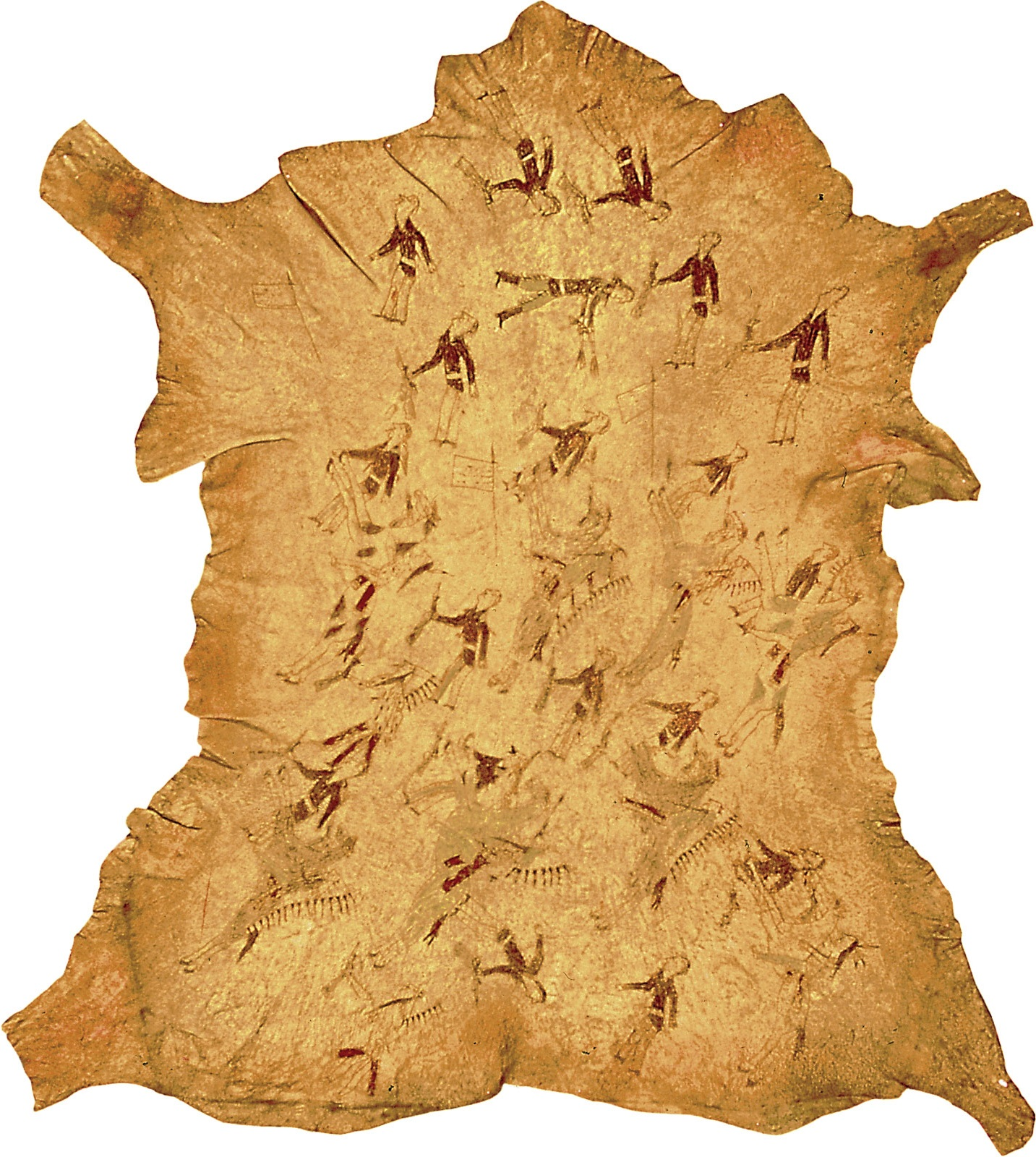 The painted picture on this bison hide shows the battle of the Little Bighorn, where the Plain Indians fought Lieut. Col. George Custer's troops.